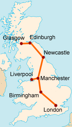 Map of the UK showing the route of the proposed Ultraspeed magnetic levitation line. Cimex 11:32, 30 December 2006 (UTC)